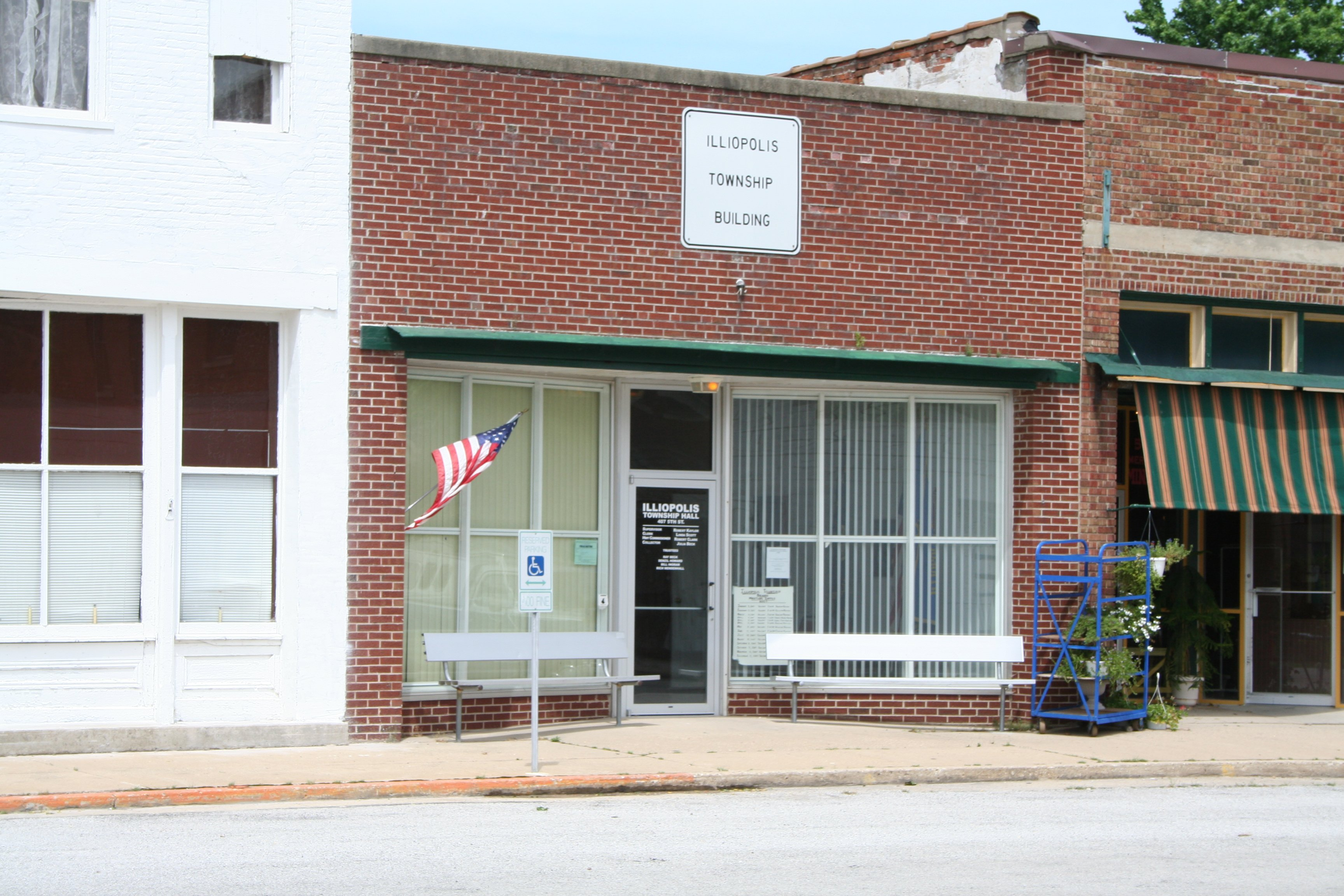 Illiopolis, Illinois: Illiopolis Township Building